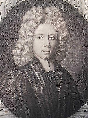 Portrait of William Nicholls (1664–1712), English cleric.